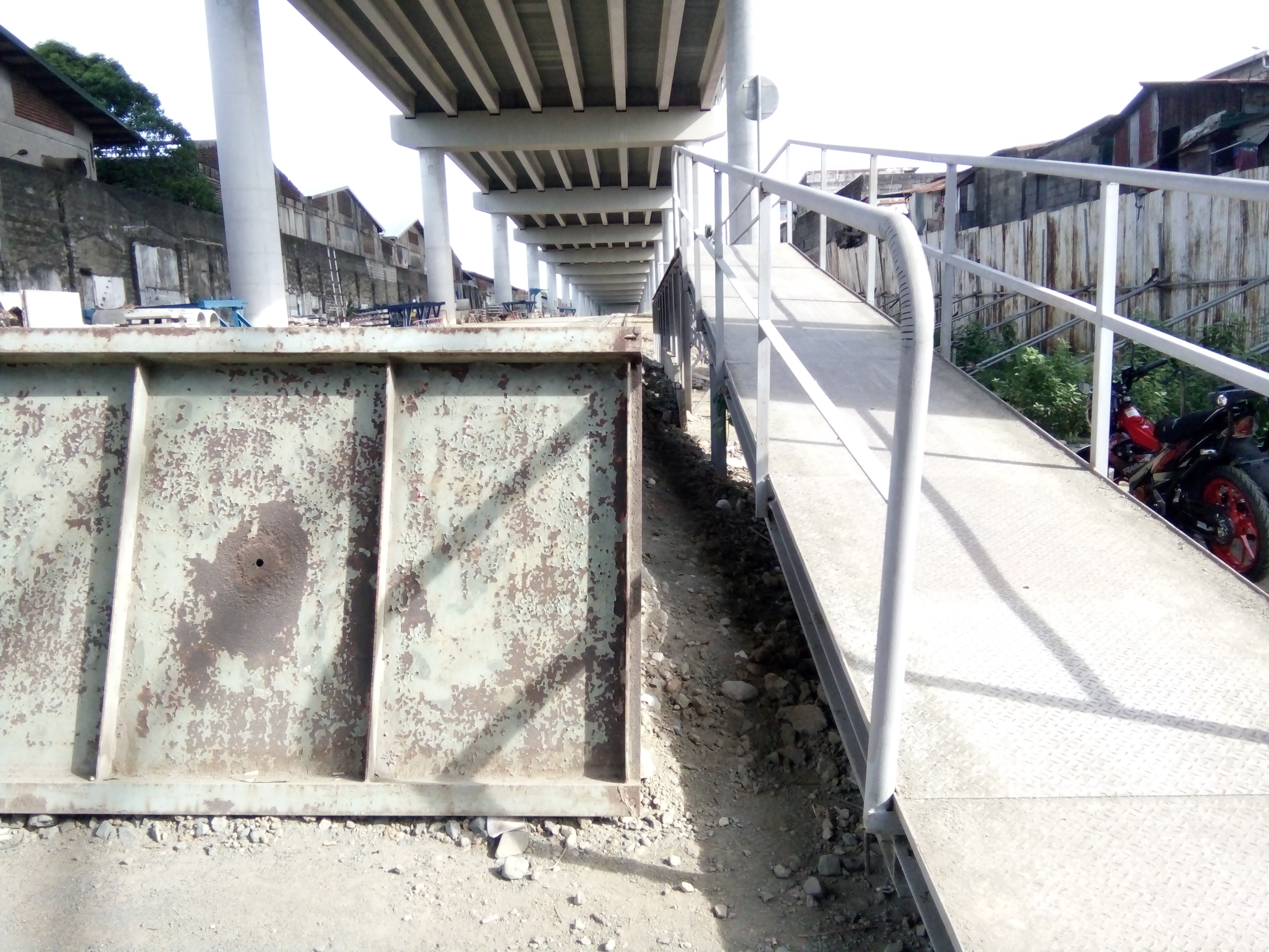 PNR station in Malabon, taken in June 12, 2019 while waiting for a train.